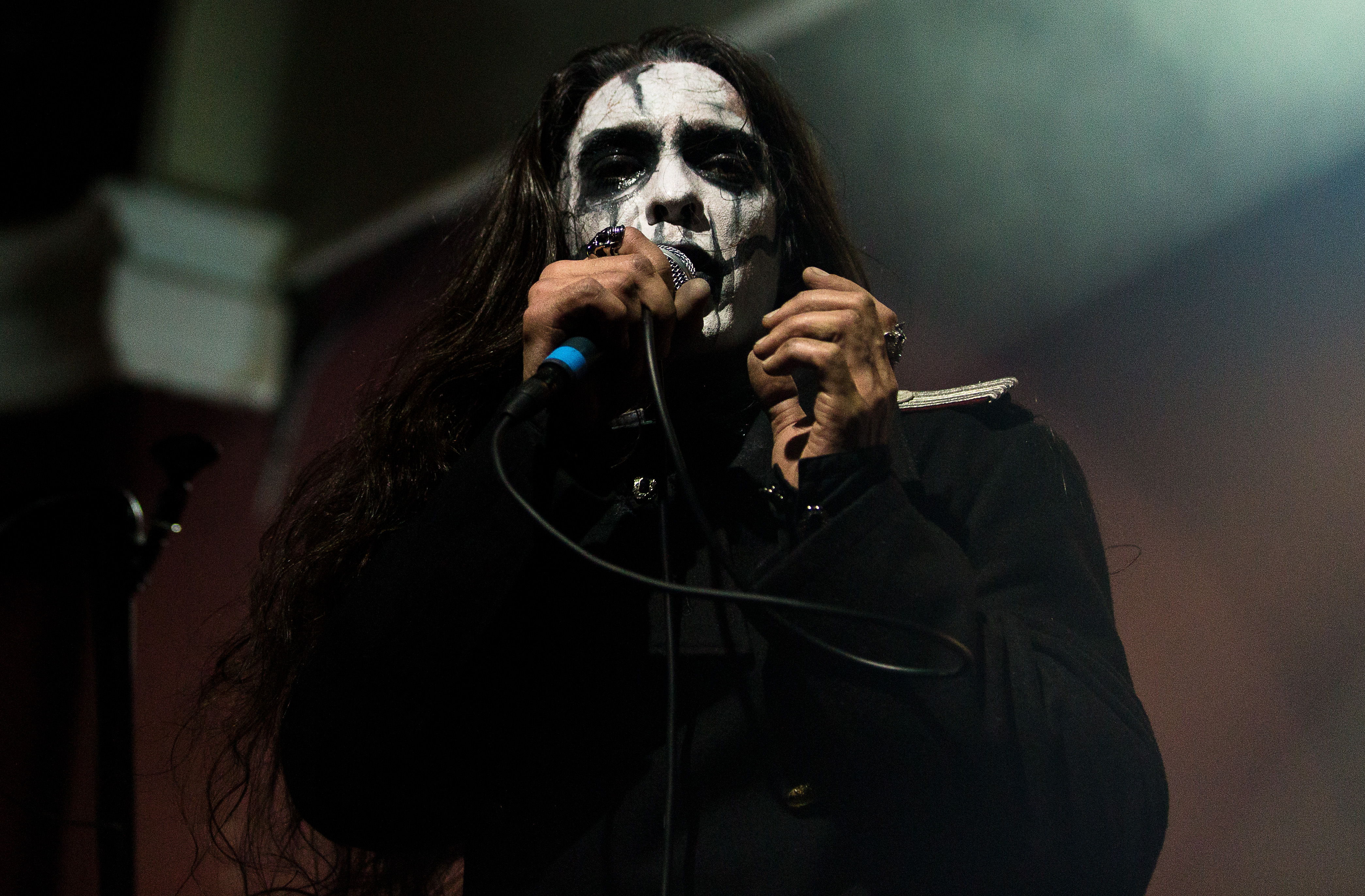 The Dutch symphonic black metal band Carach Angren at the 25. Wave-Gotik-Treffen 2016 in Leipzig/Germany.